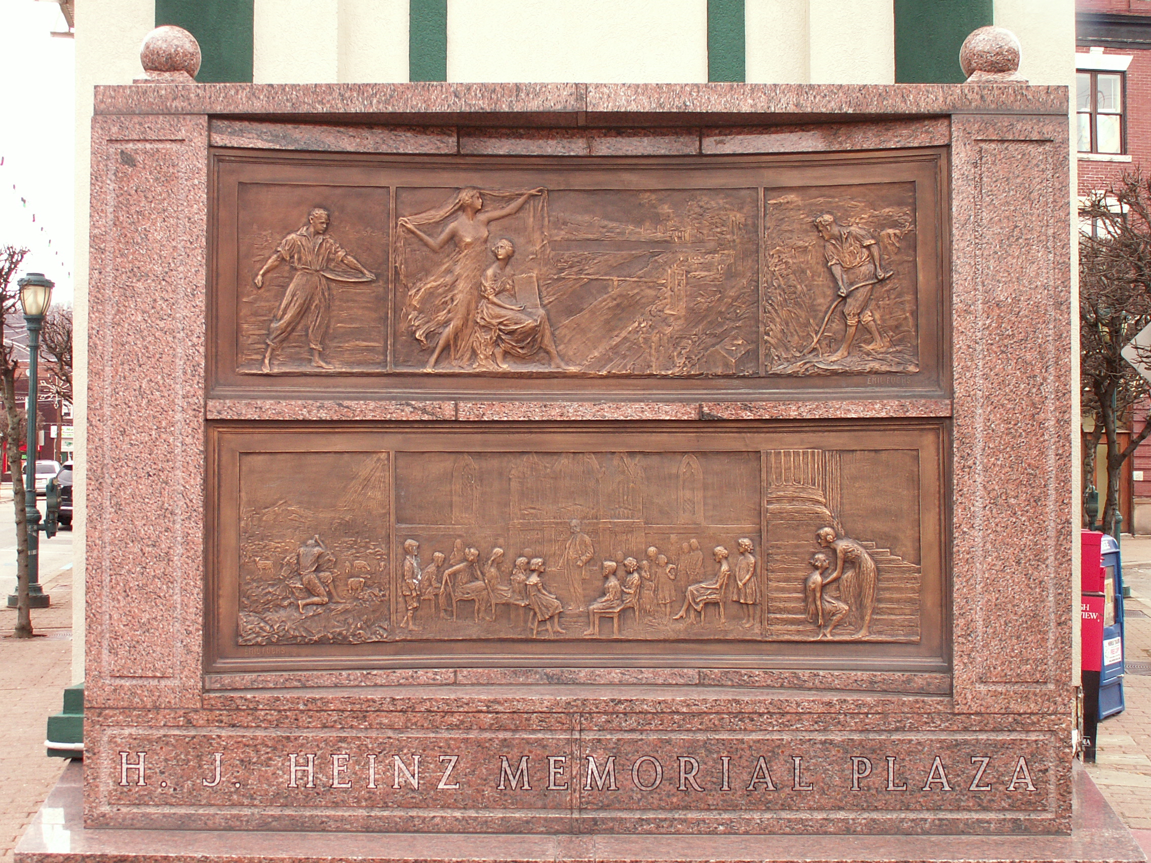 Bronze reliefs by Emil Fuchs at the H. J. Heinz Memorial Plaza, Sharpsburg, Pennsylvania